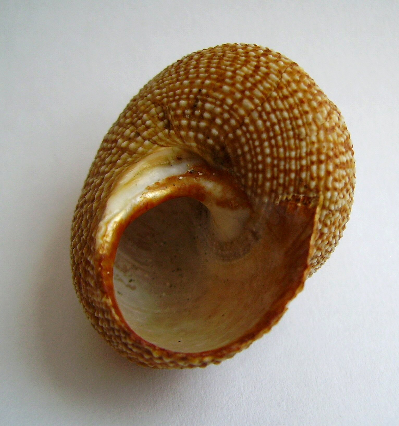 Calliostoma punctulatum (underside view), from near Wellington, New Zealand.